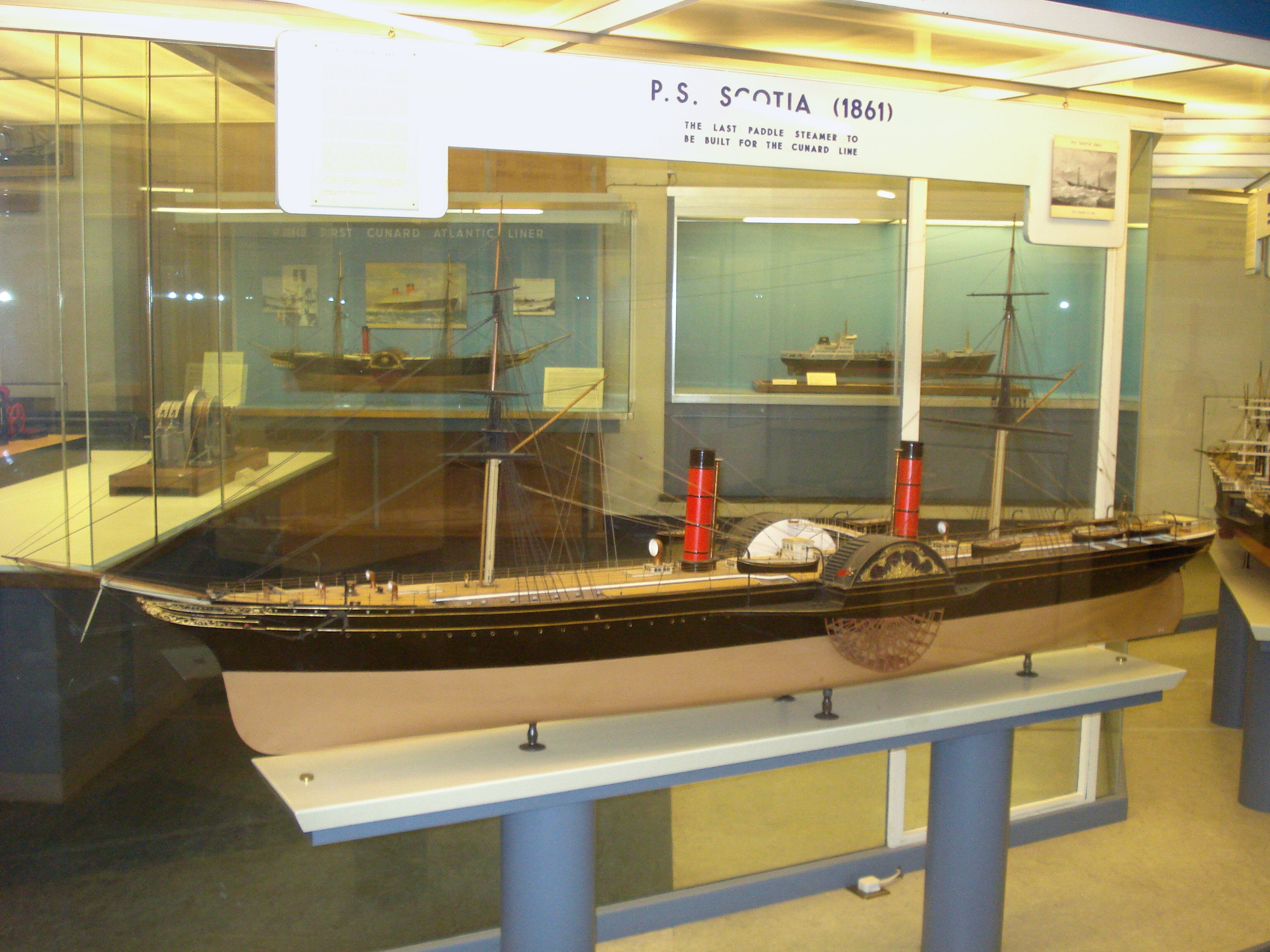 SS Scotta (1861) model